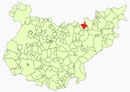 Acedera